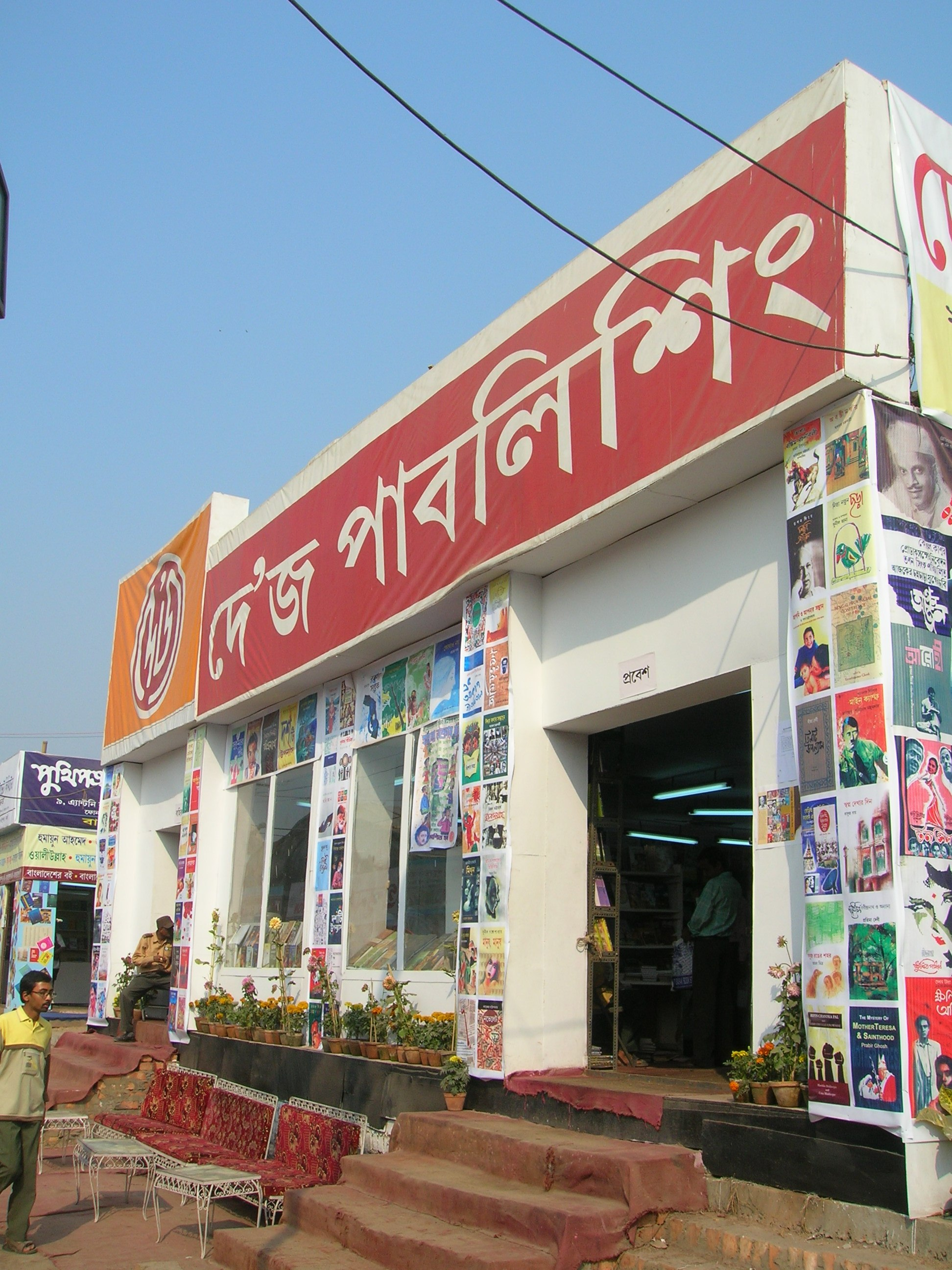 Dey's Publishing stall at Kolkata Book Fair, 2009